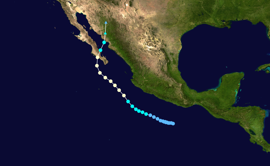 Hurricane Pauline (1968) track. Uses the color scheme from the Saffir-Simpson Hurricane Scale.